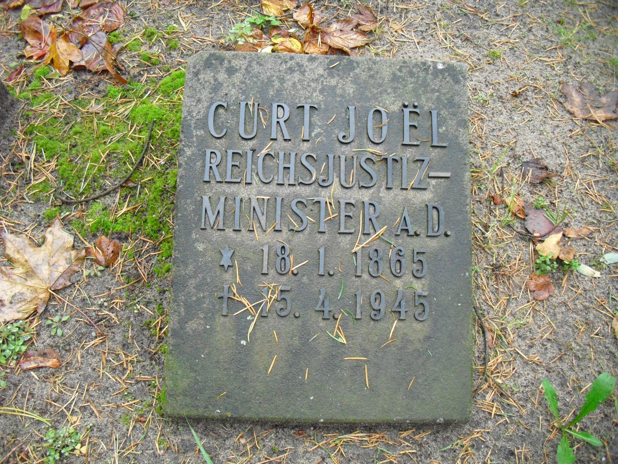 Grave of Curt Joël in Friedhof Heerstraße in Berlin-Westend